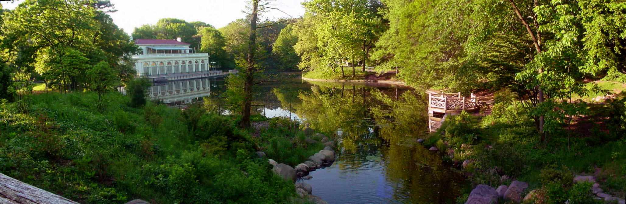 The Lullwater, Prospect Park, Brooklyn, NY, looking south from Binnen Bridge